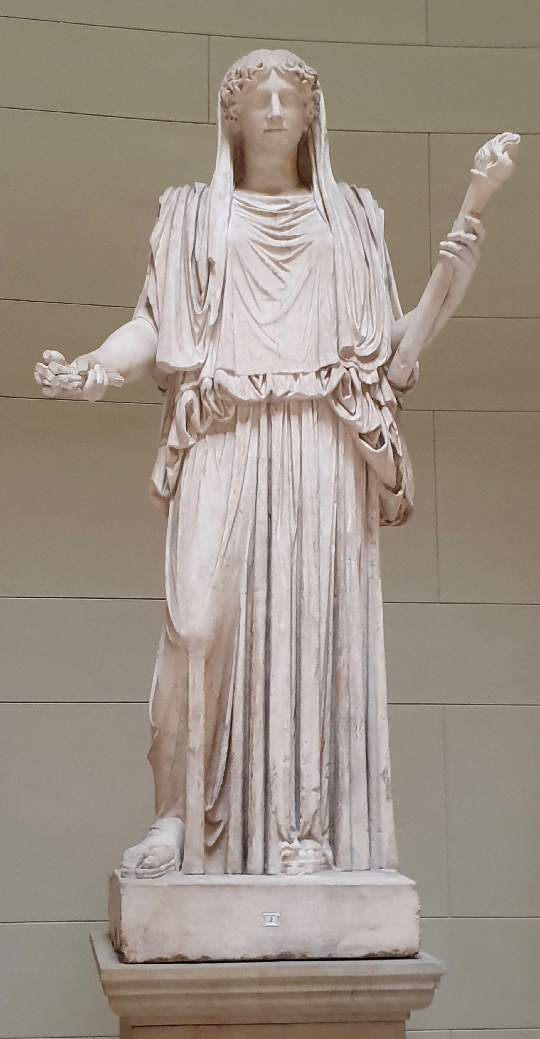 Statue of Demeter at Rotunda of Altes Museum